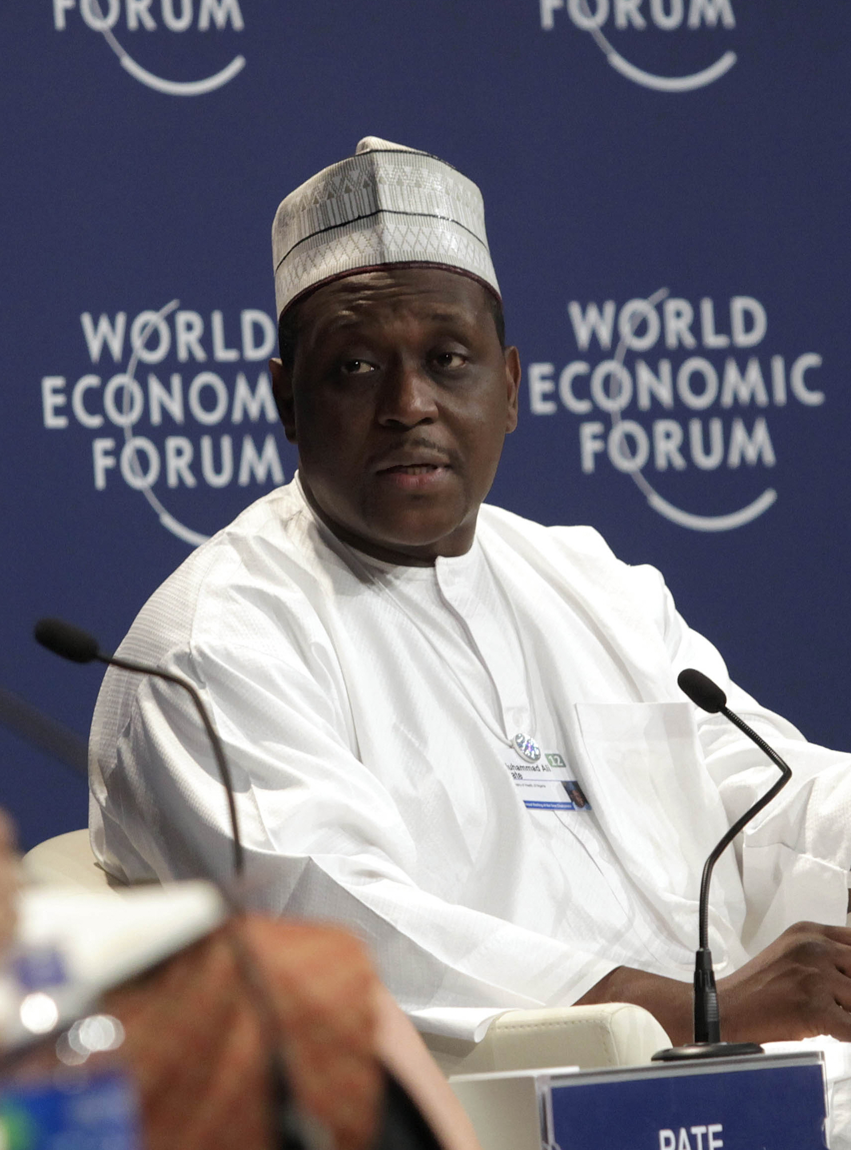 Muhammad Ali Pate, Minister of State for Health of Nigeria; Global Agenda Council on Population Growth at the Annual Meeting of the New Champions in Tianjin, China 2012